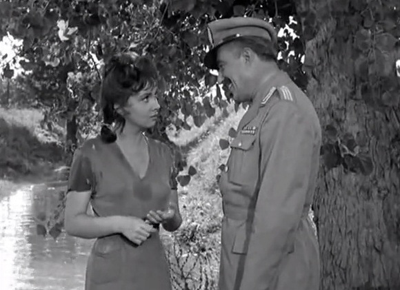 Bread, Love and Dreams (1953)